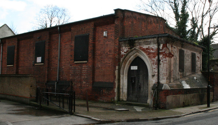 Image of Blackwing Studios taken in 2010